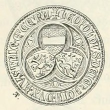 Leopold IV, Duke of Austria